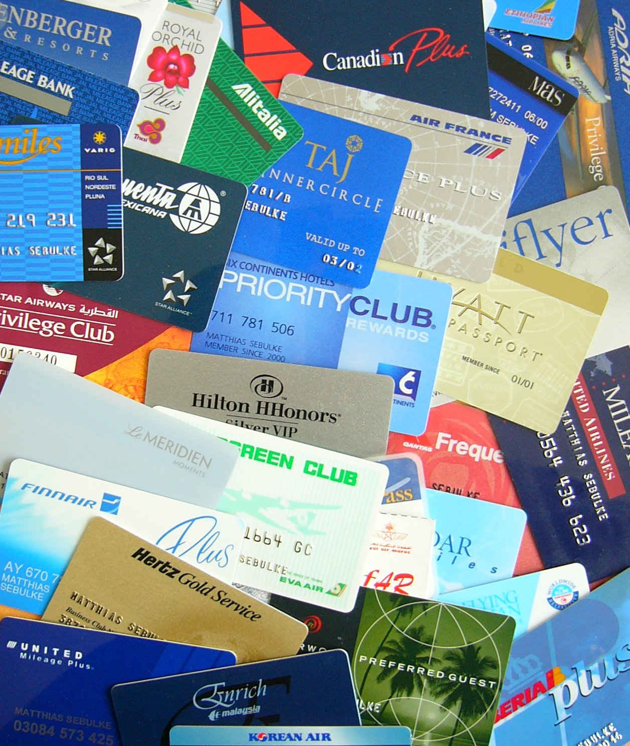 Different customer loyality cards (airlines, car rental companies, hotels etc.)